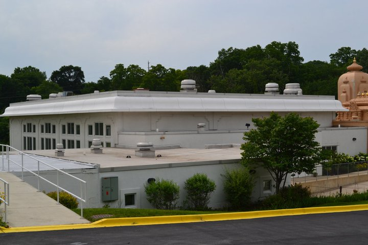 A Picture of Sama Rathi Auditorium on the temple campus at The Hindu Temple of Greater Chicago in Lemont, Illinois (a suburb of Chicago)